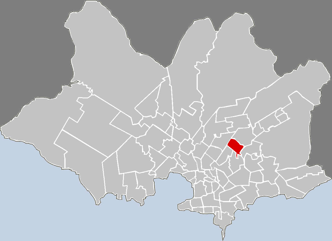 Map highlighting the given barrio in Montevideo.